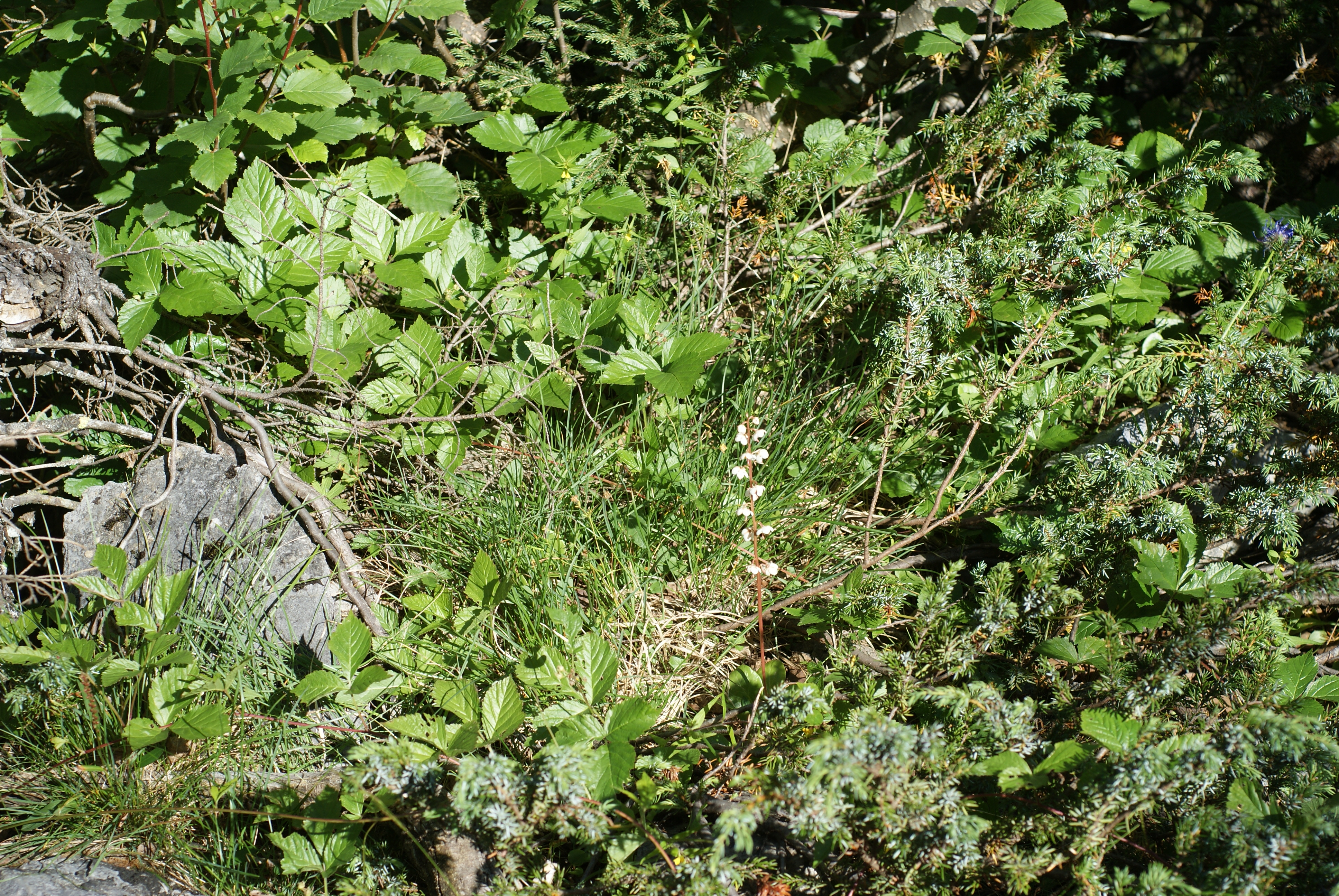 Habitat of Pyrola rotundifolia in a mixed grove in the Rätikon mountain range. You can see the plant just below the middle of the picture.